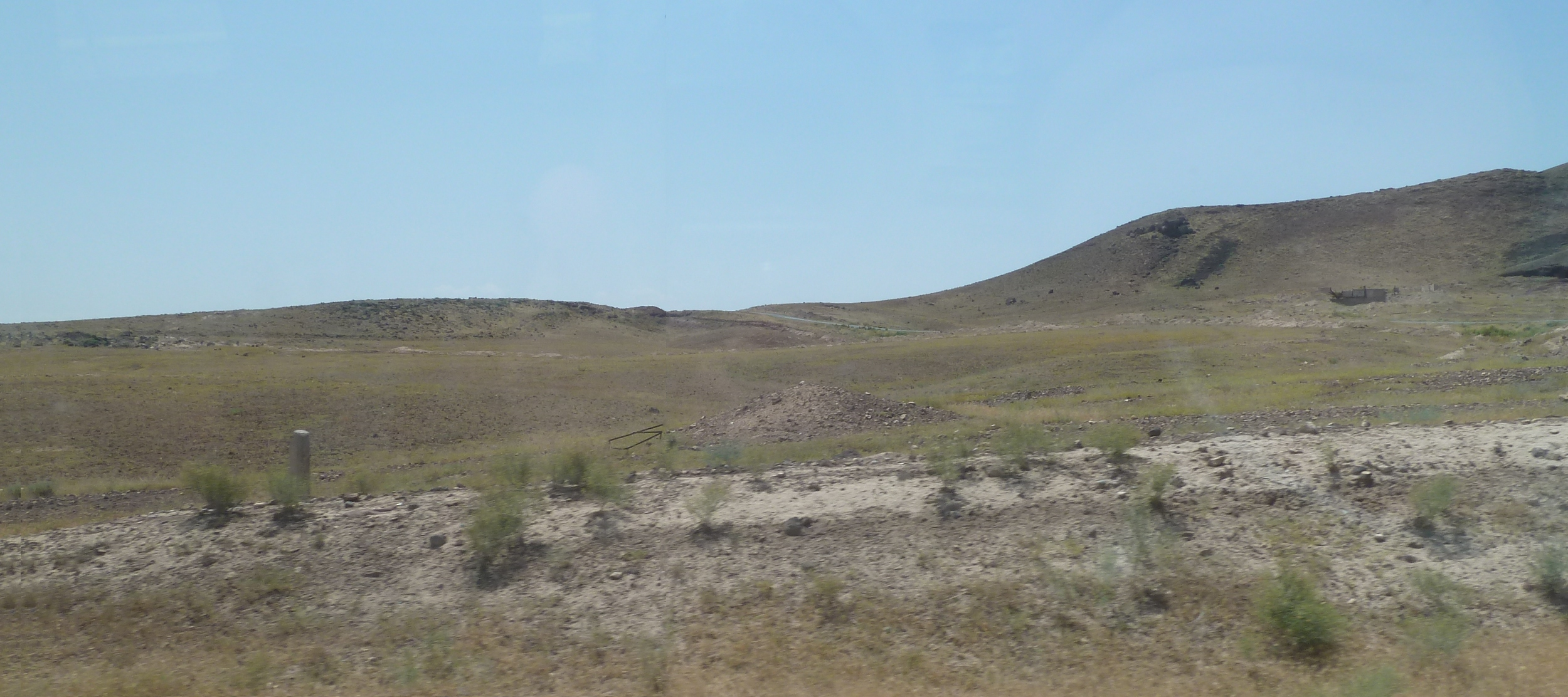 Near Arevadasht village, Aragatsotn, Armenia